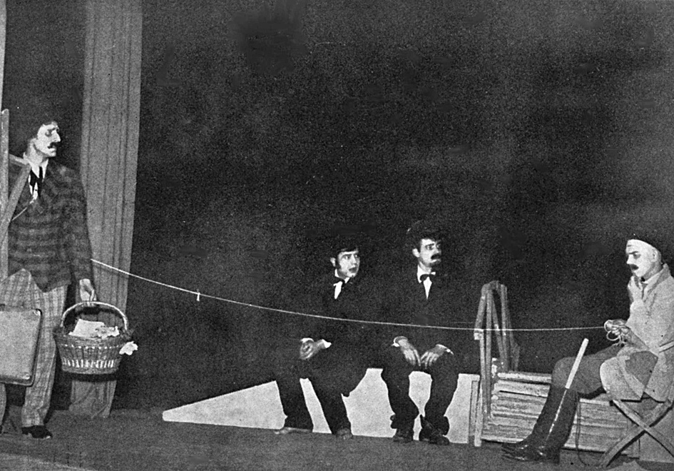 Waiting for Godot, directed by Macedonian theatre director Bore Angelovski